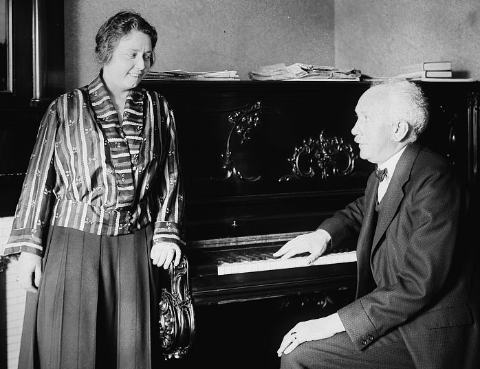 Elisabeth Schumann (1888-1952) with Richard Strauss (1864-1949)